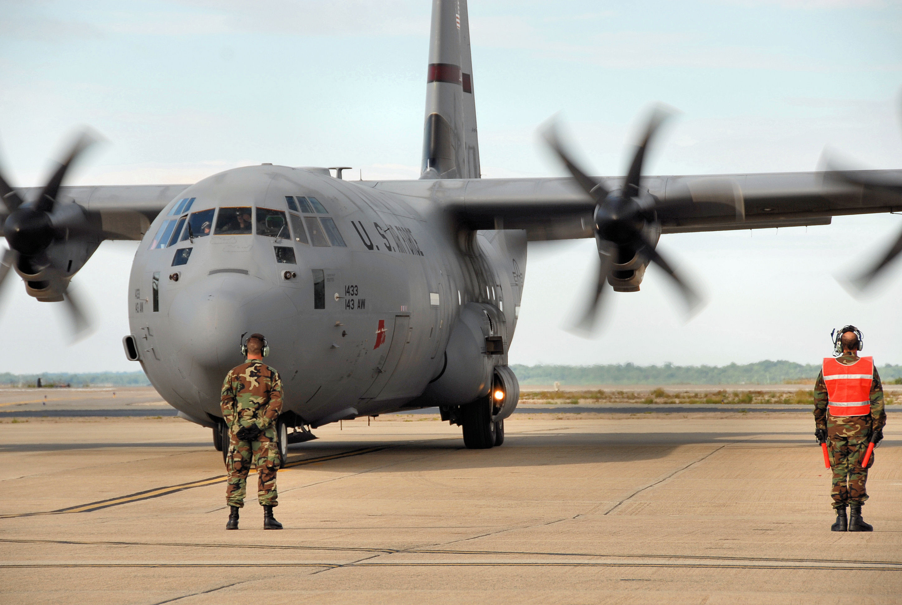 Members of the 143d Maintenance Group marshall a C-130J-30 into its paking spot on the flightline at Quonset Air National Guard Base, North Kingstown, Rhode Island, during a ceremony to celebrate the arrival of the eight C-130J-30 to arrive at the 143d Airlift Wing completing the fleet for the Wing.